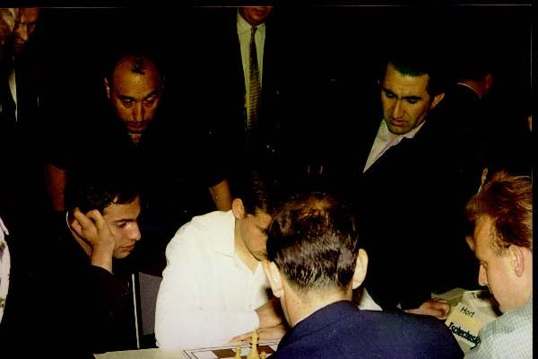 Michail Tal, Tigran Petrosjan and other, European Team Championship, Oberhausen 1961, Photographer Gerhard Hund.